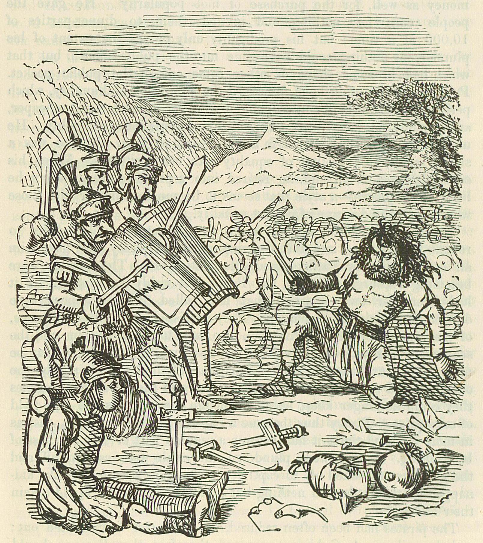 Image by John Leech, from: The Comic History of Rome by Gilbert Abbott A Beckett. Bradbury, Evans & Co, London, 1850s Spartacus